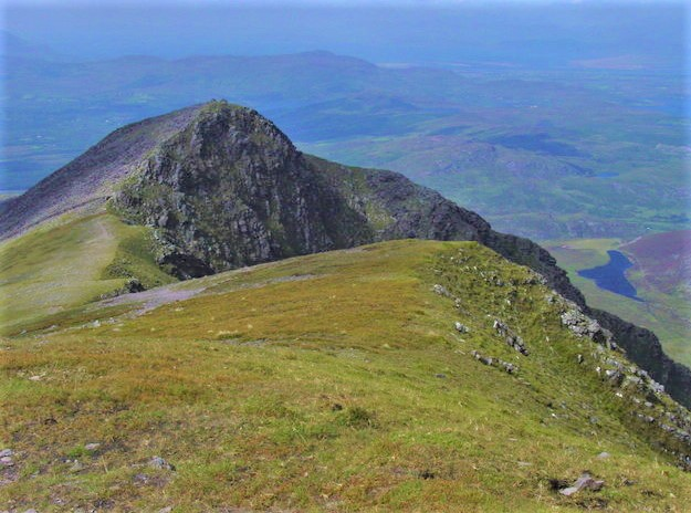 Caher West top from Caher The walk up over Caher makes an excellent ridge walk to gain Carrauntoohil the highest mountain in Ireland.